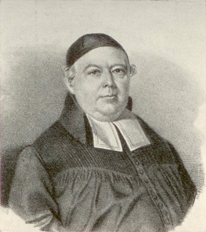 Picture of Anton Kirchner (1776-1834), German theologian, historian, teacher and school reformer.